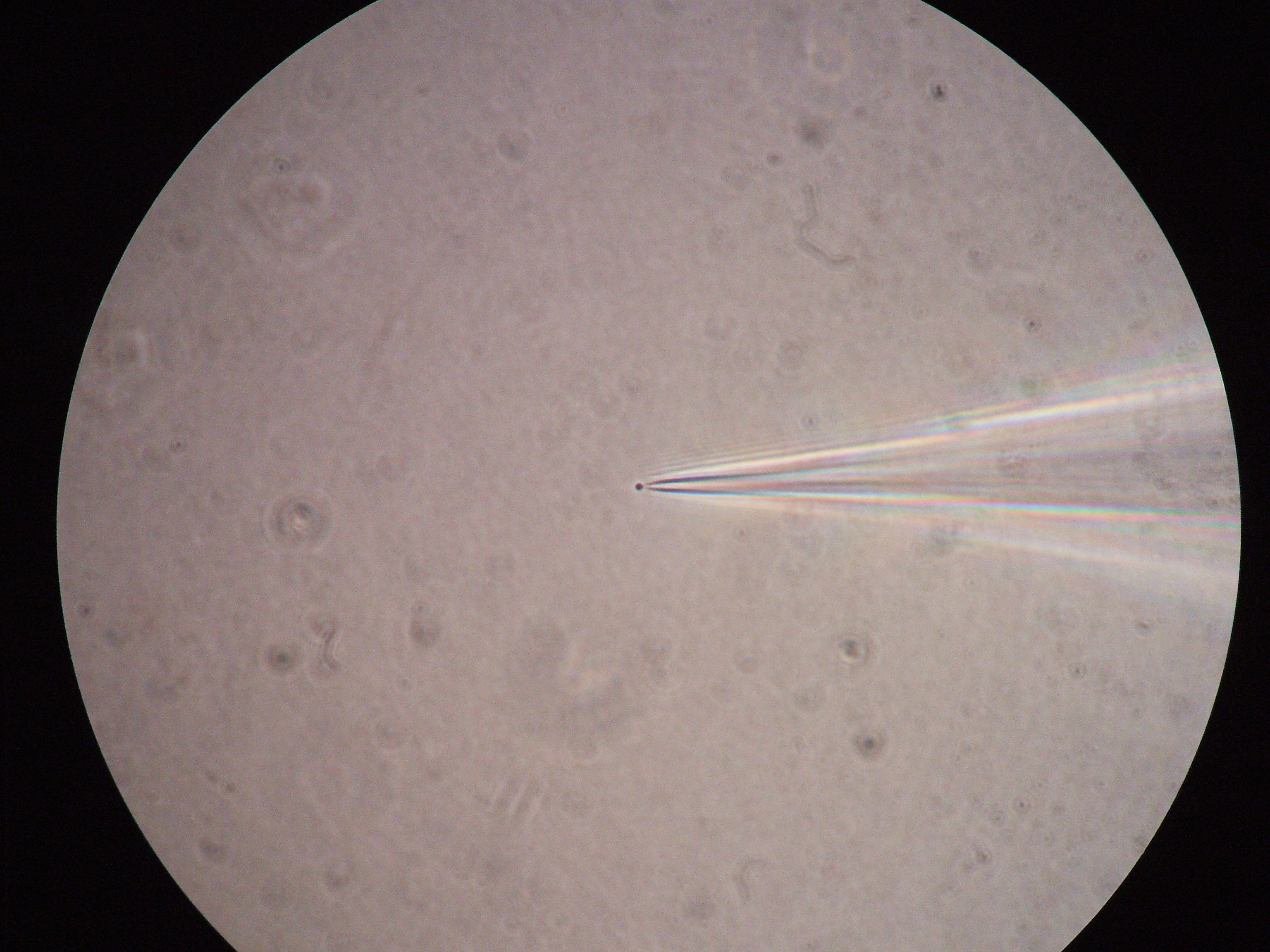 This is a patched bacterial spheroplast on a glass pipette. I took this picture myself, and hereby release it to the public domain